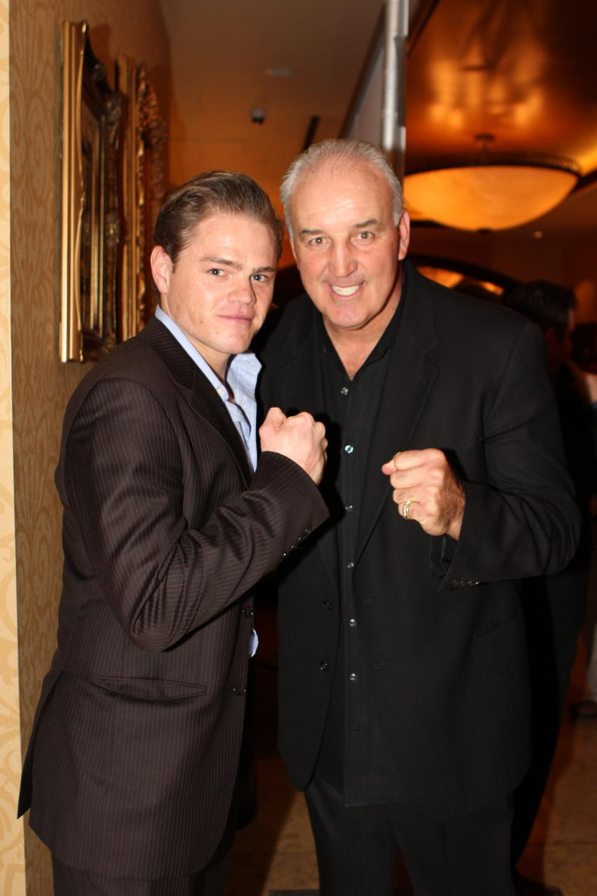 Boardwalk Empire American boxer Gerry Cooney (right) in 2011